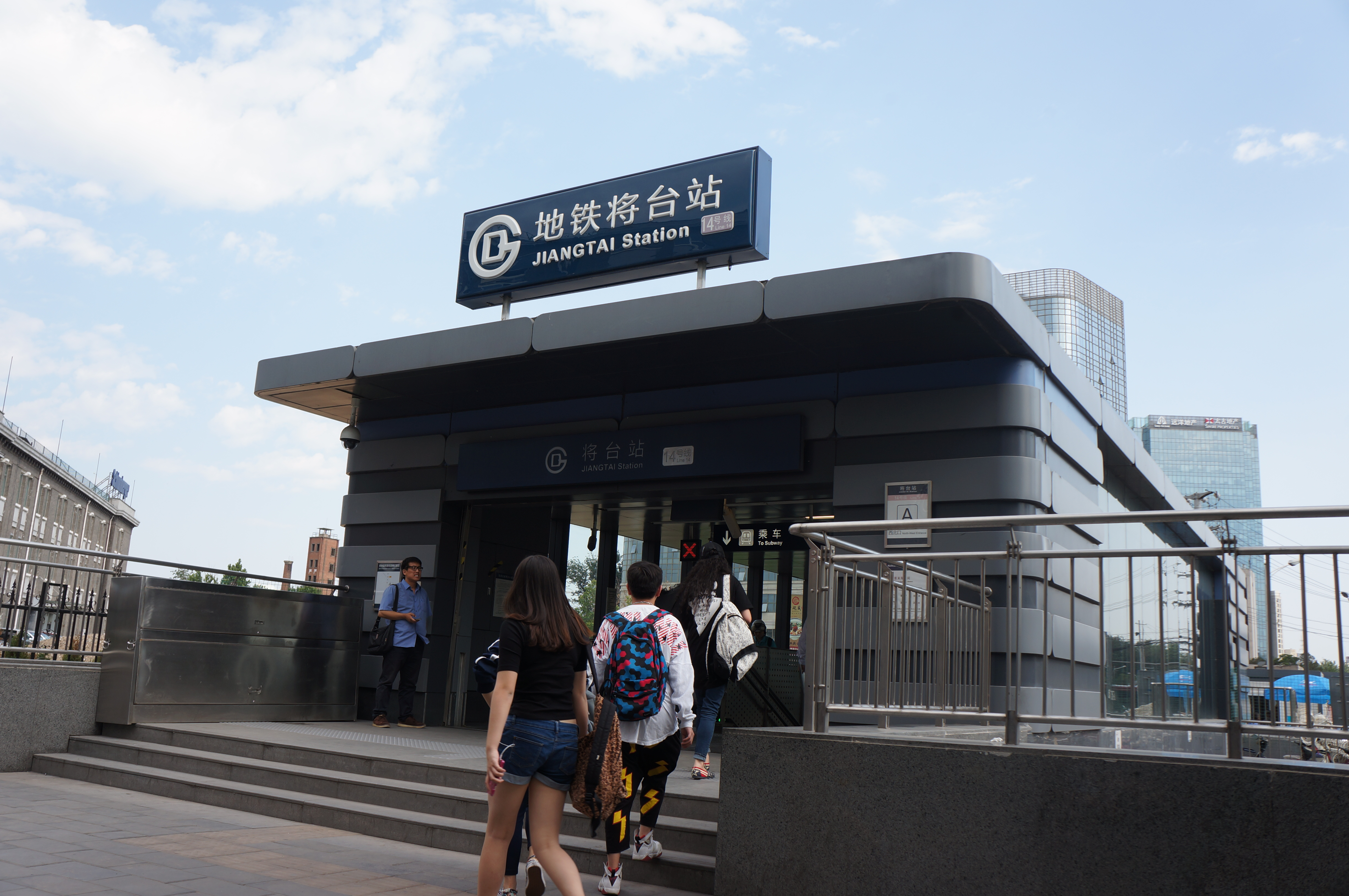 201606 Exit A of Jiangtai Station